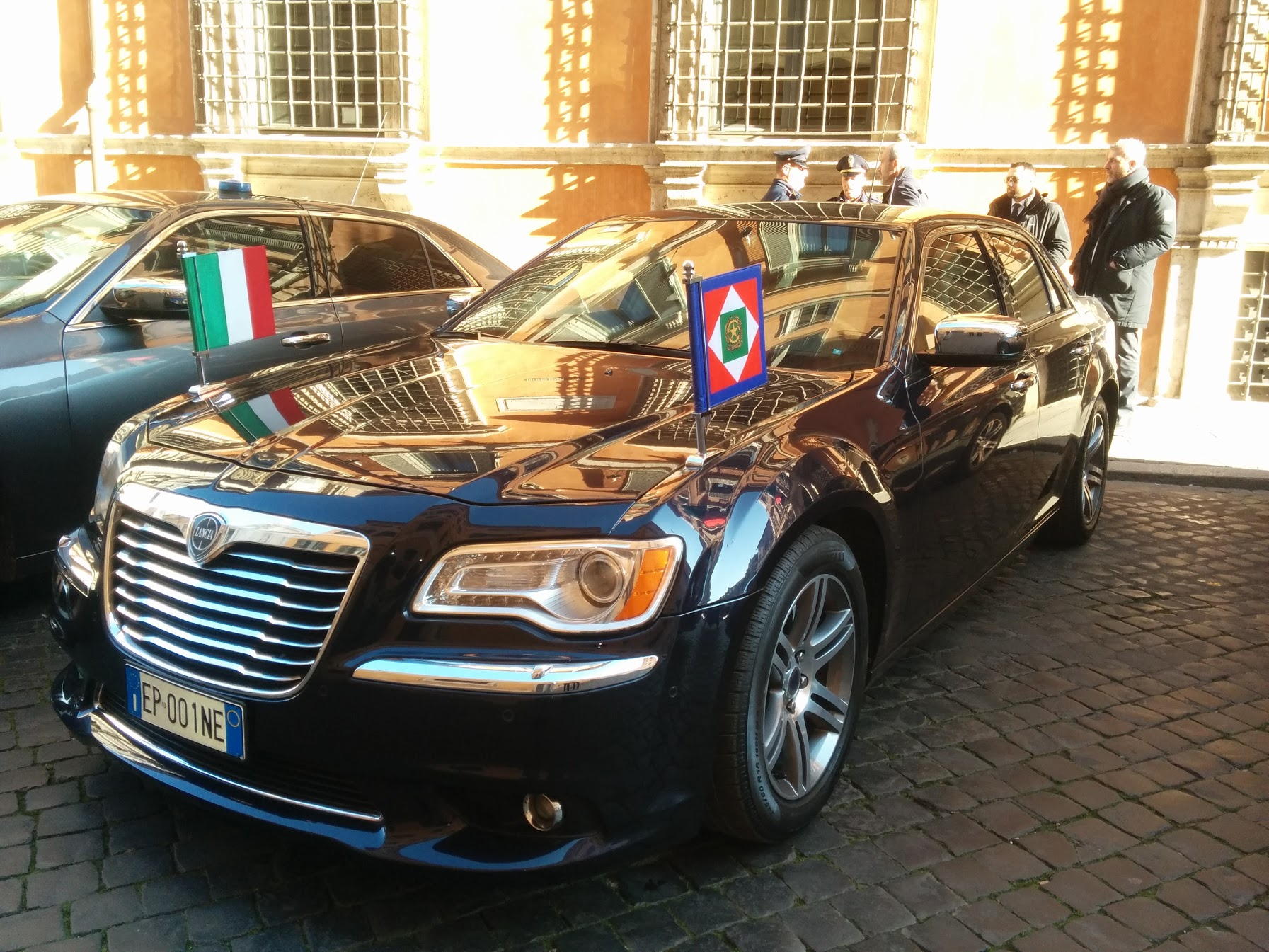 Official State Vehicle of President Sergio Mattarella.